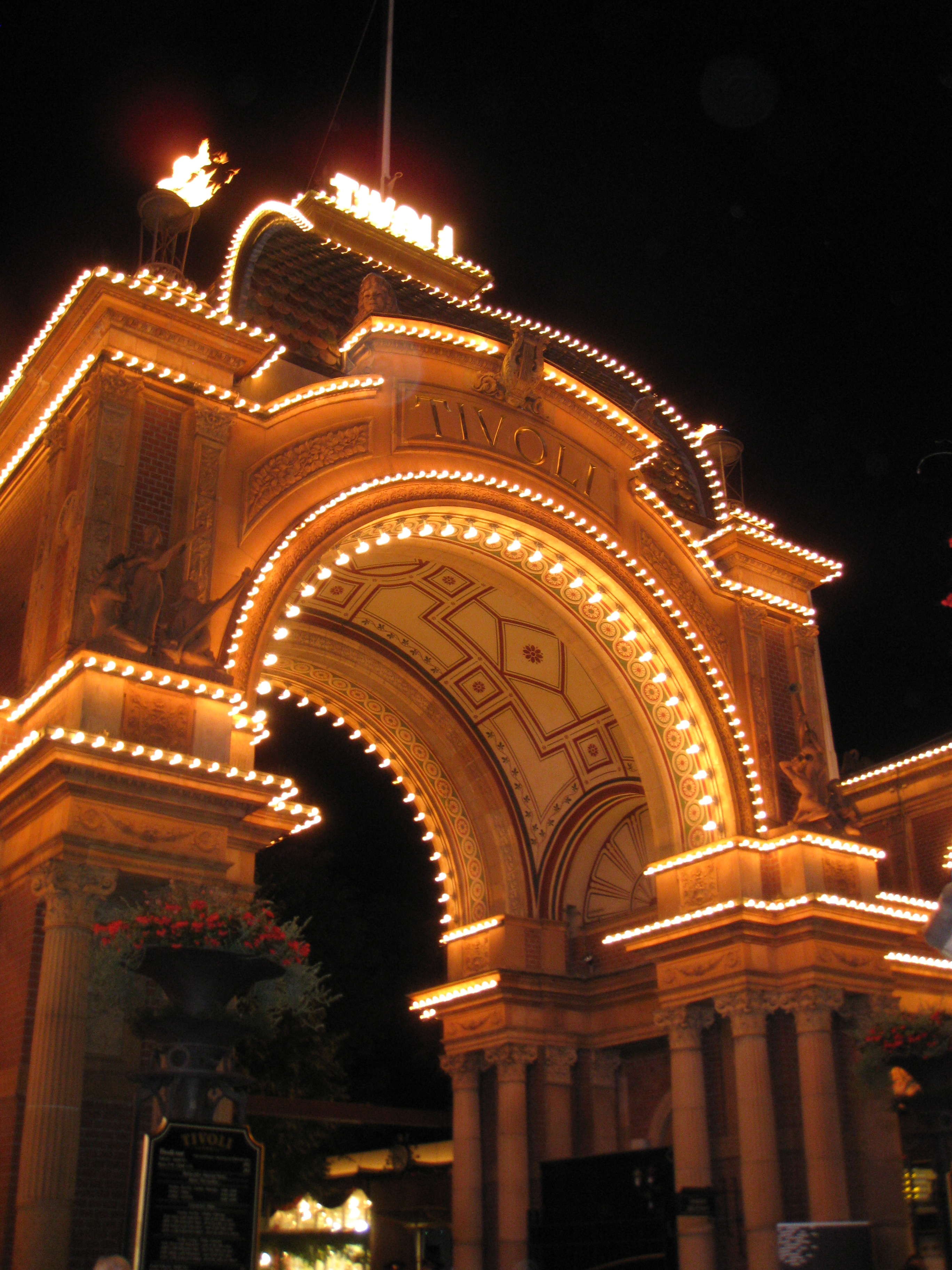 Tovoli is an amusement park in the centre of Copenhagen.